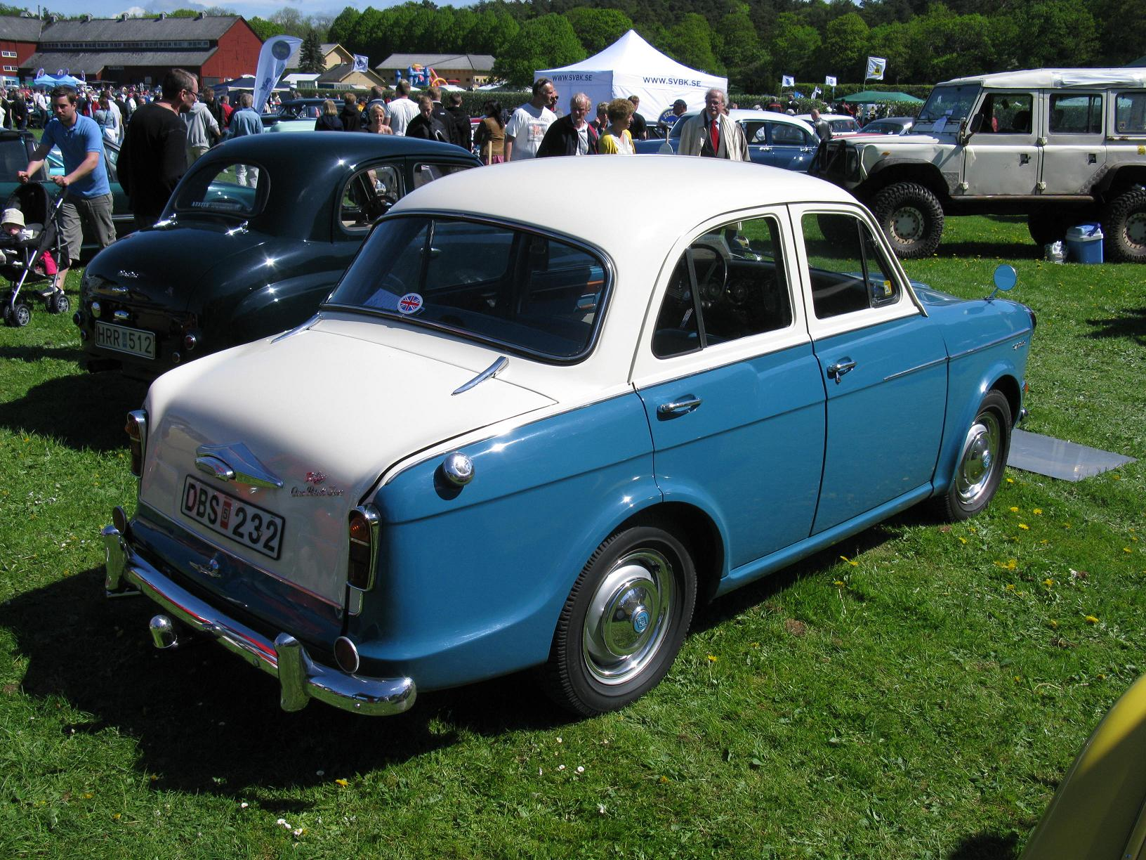 Riley One Point Five